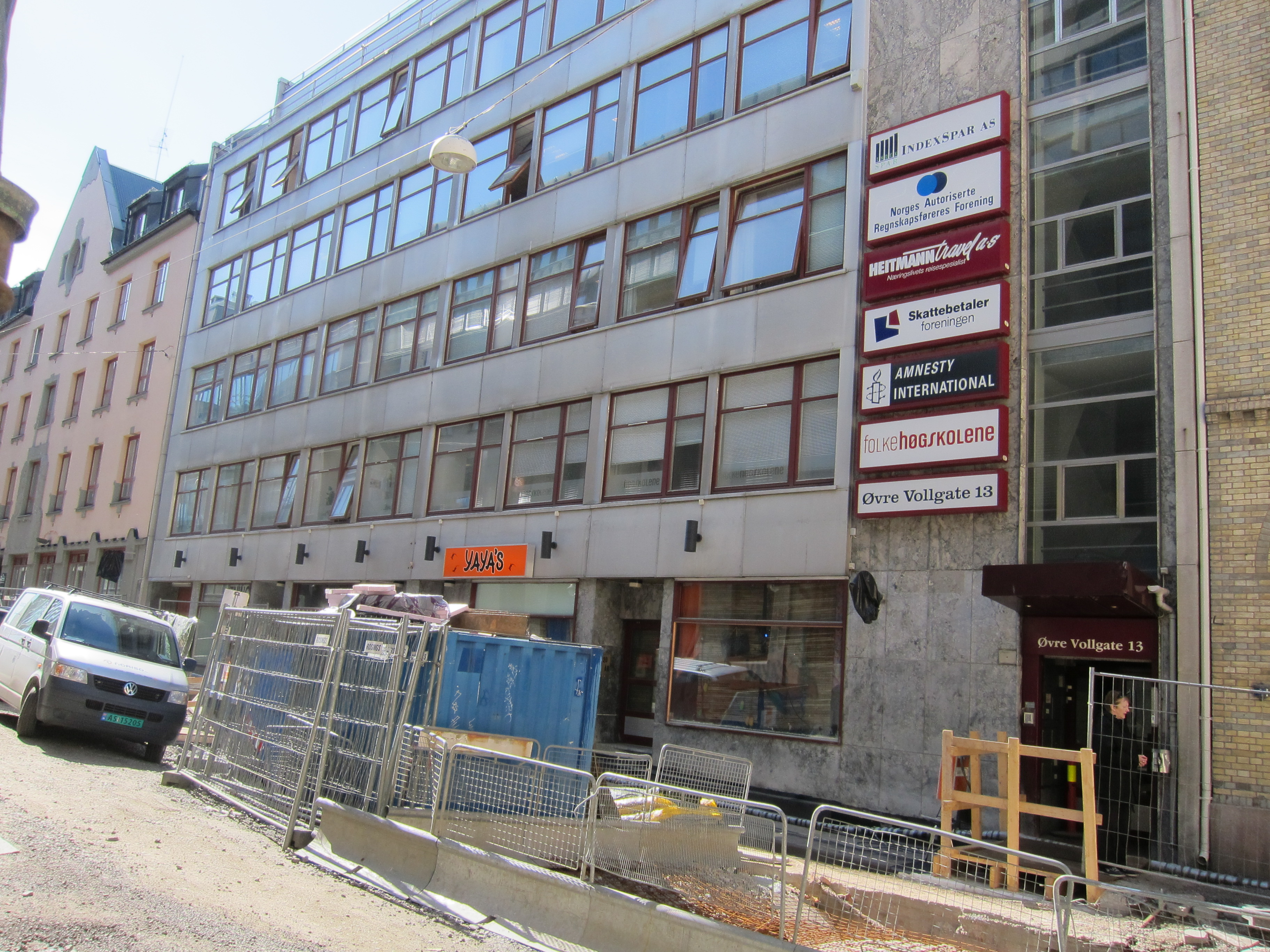 The building Øvre Vollgate 13 in Oslo, Norway